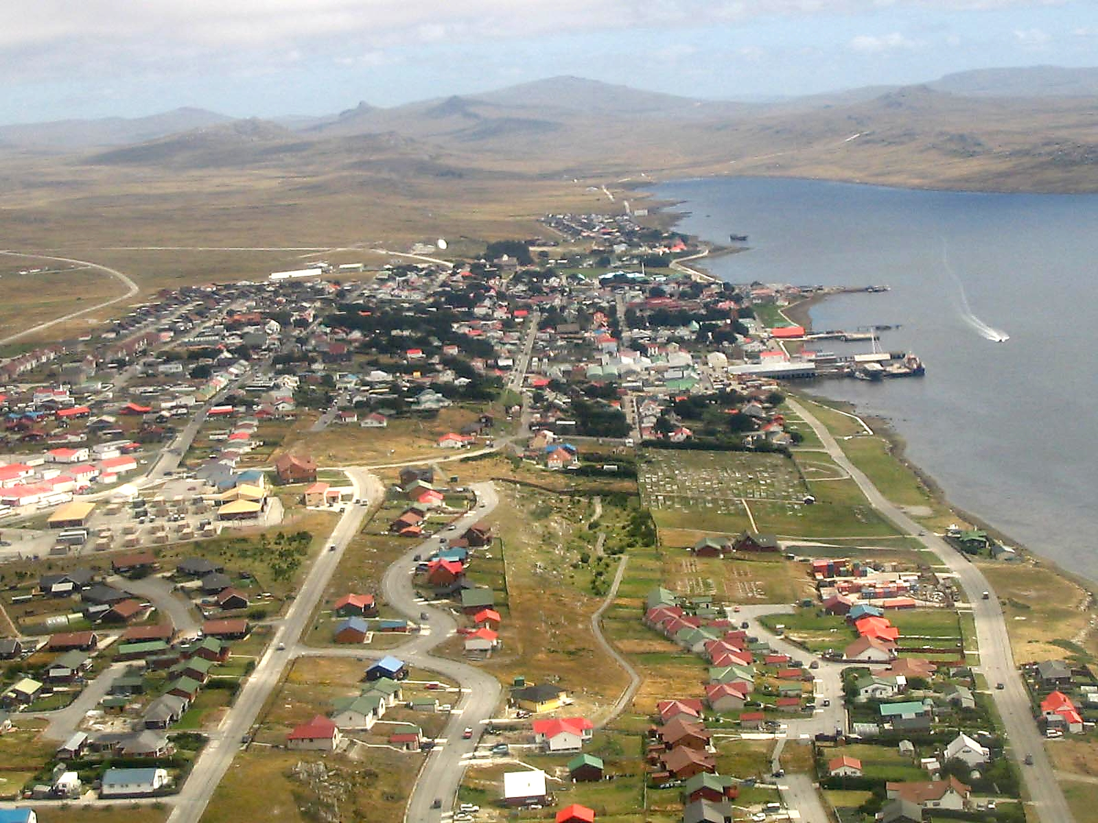 Port Stanley, from the air